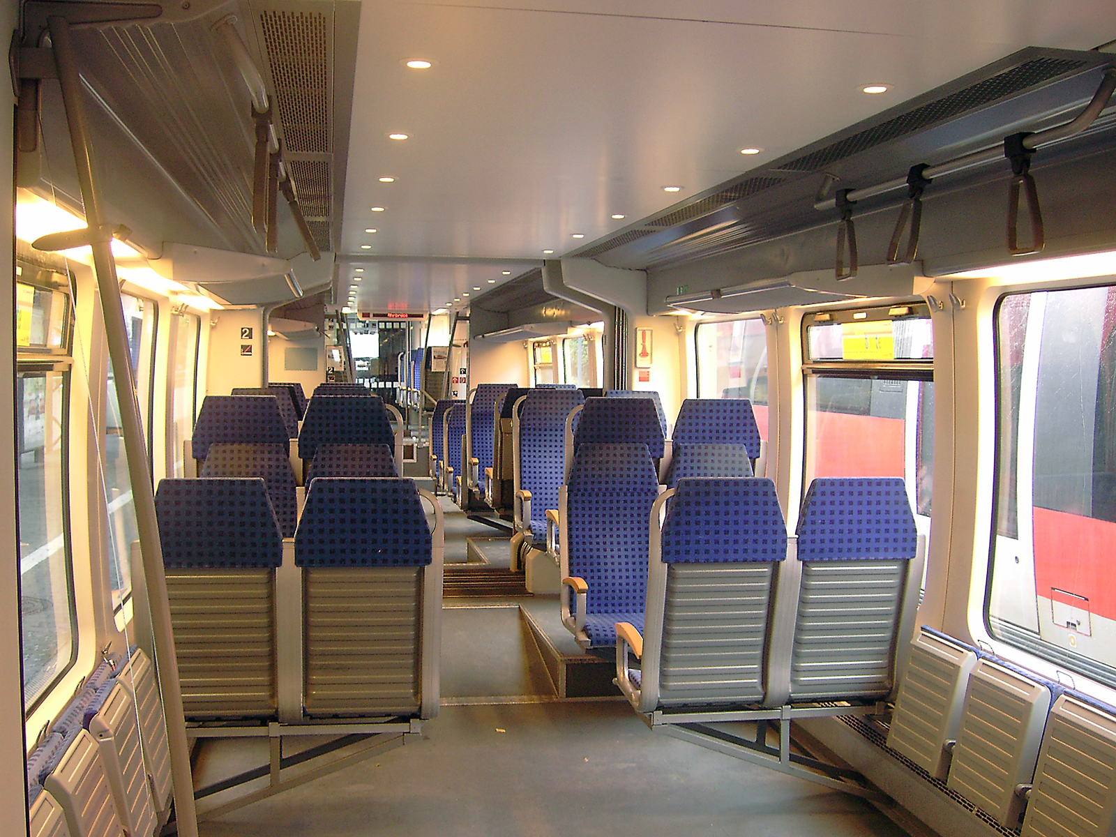 Interior of a DB Talent Class 643 DMU